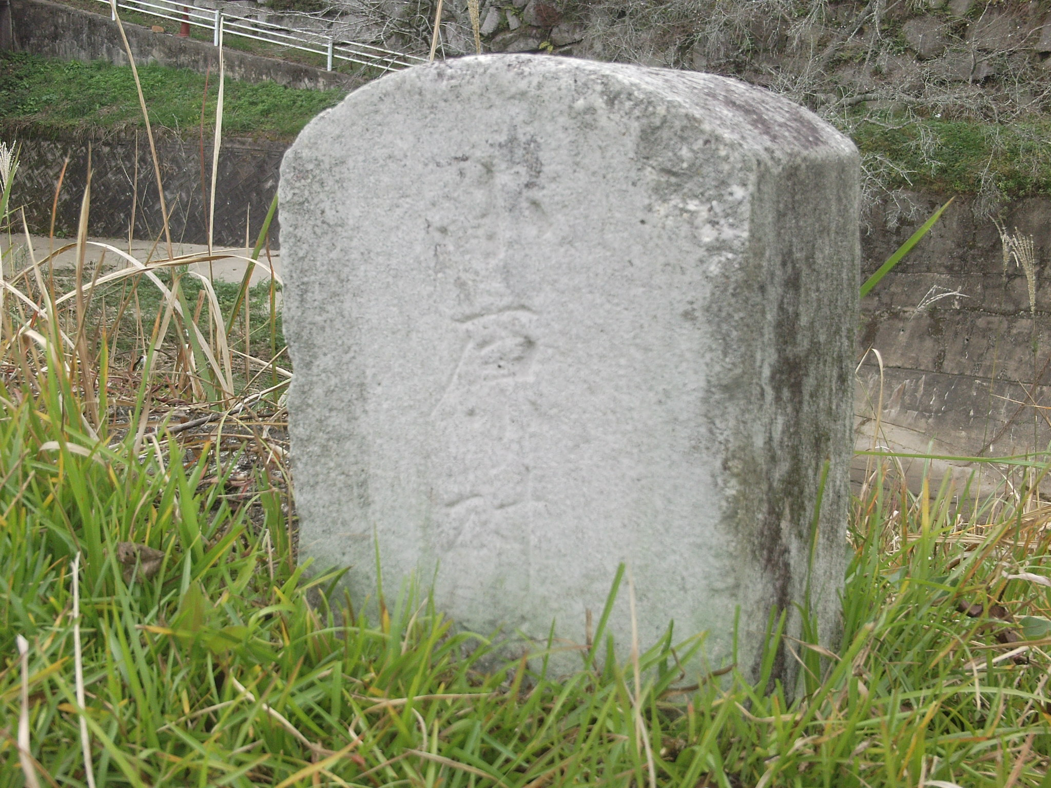 Kilometre zero of Obara village. (Obara village, Nishikamo-gun, Aichi.)